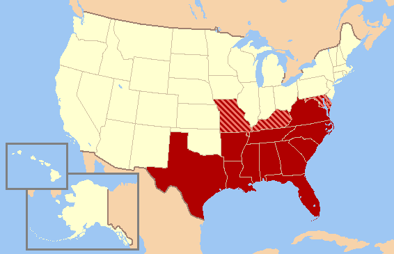 Historic map of Southern United States, based on Civil War allegiances. The states in solid red seceded from the Union to form the Confederate States of America, while the striped states - Missouri, Kentucky, Maryland, and Delaware - were "Border States," slave states that did not secede from the Union to join the Confederacy. Oklahoma (not yet a state) was then Indian Territory. The Northern Counties of Virginia chose to remain in the Union and in 1863 became the state of West Virginia.